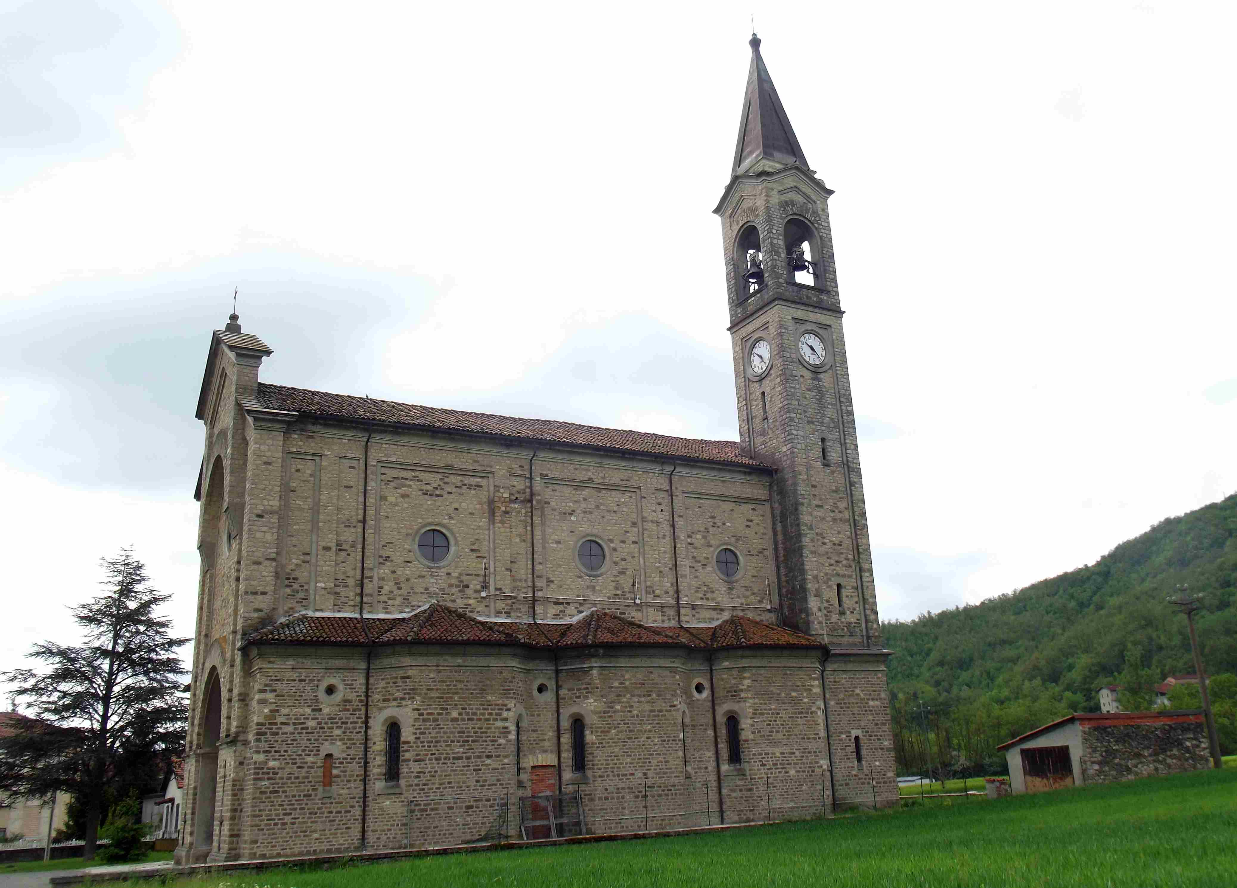 Merana (AL, Italy): parish church